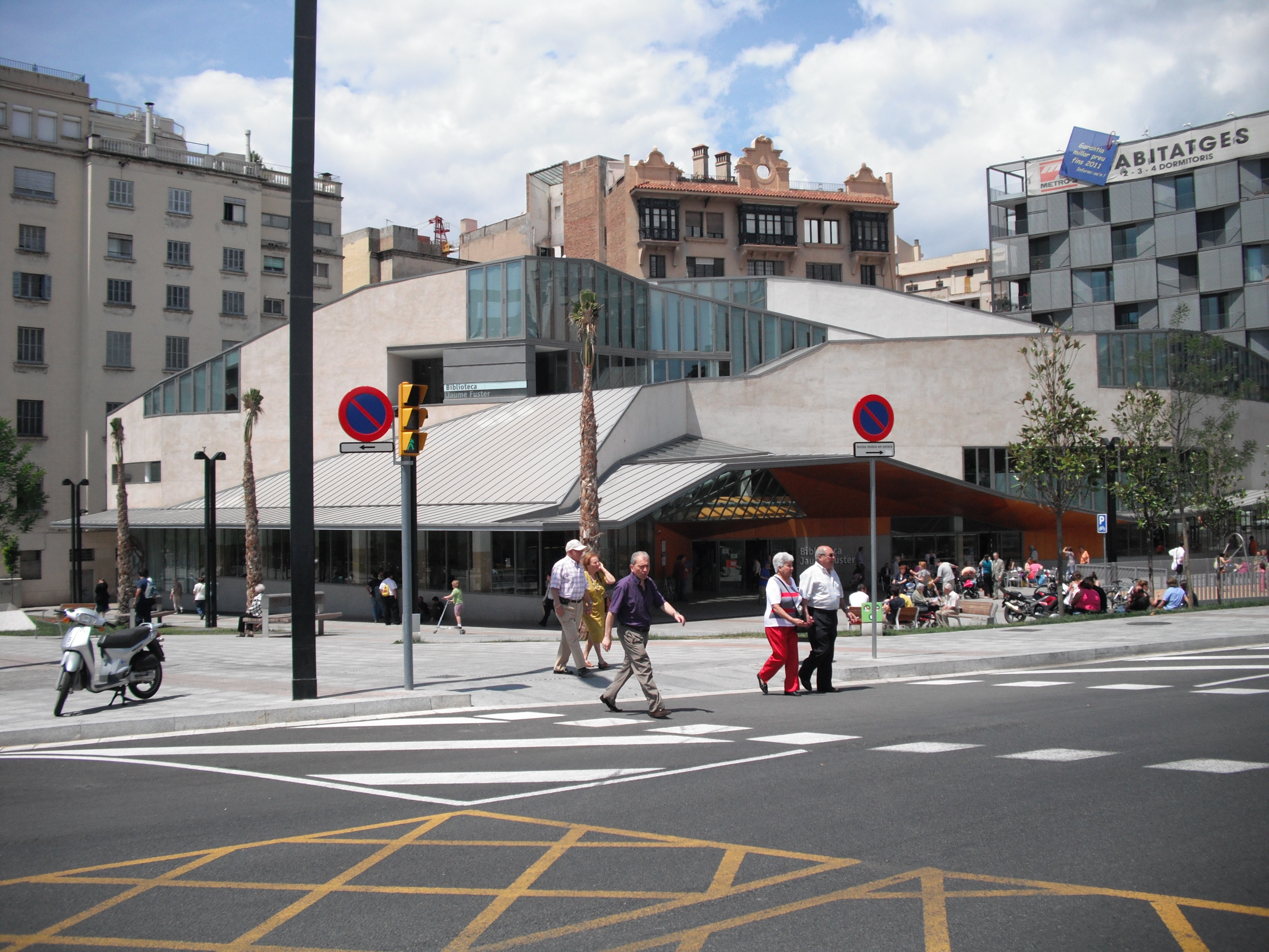 Jaume Fuster's library in plaça Lesseps (Lesseps square) in Barcelona.